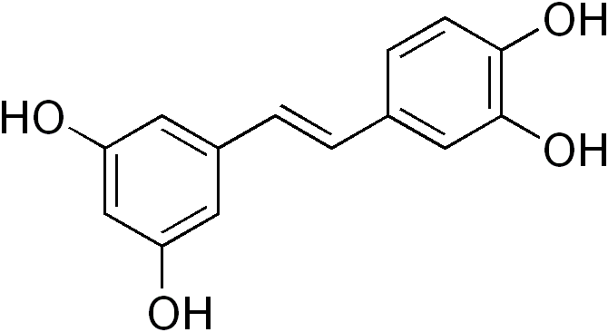 chemical structure of piceatannol